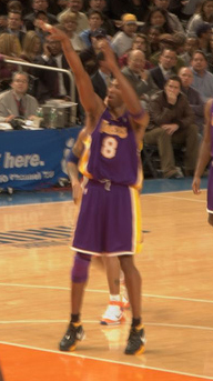 Kobe Bryant shoots freethrow vs New York Knicks in 2006.